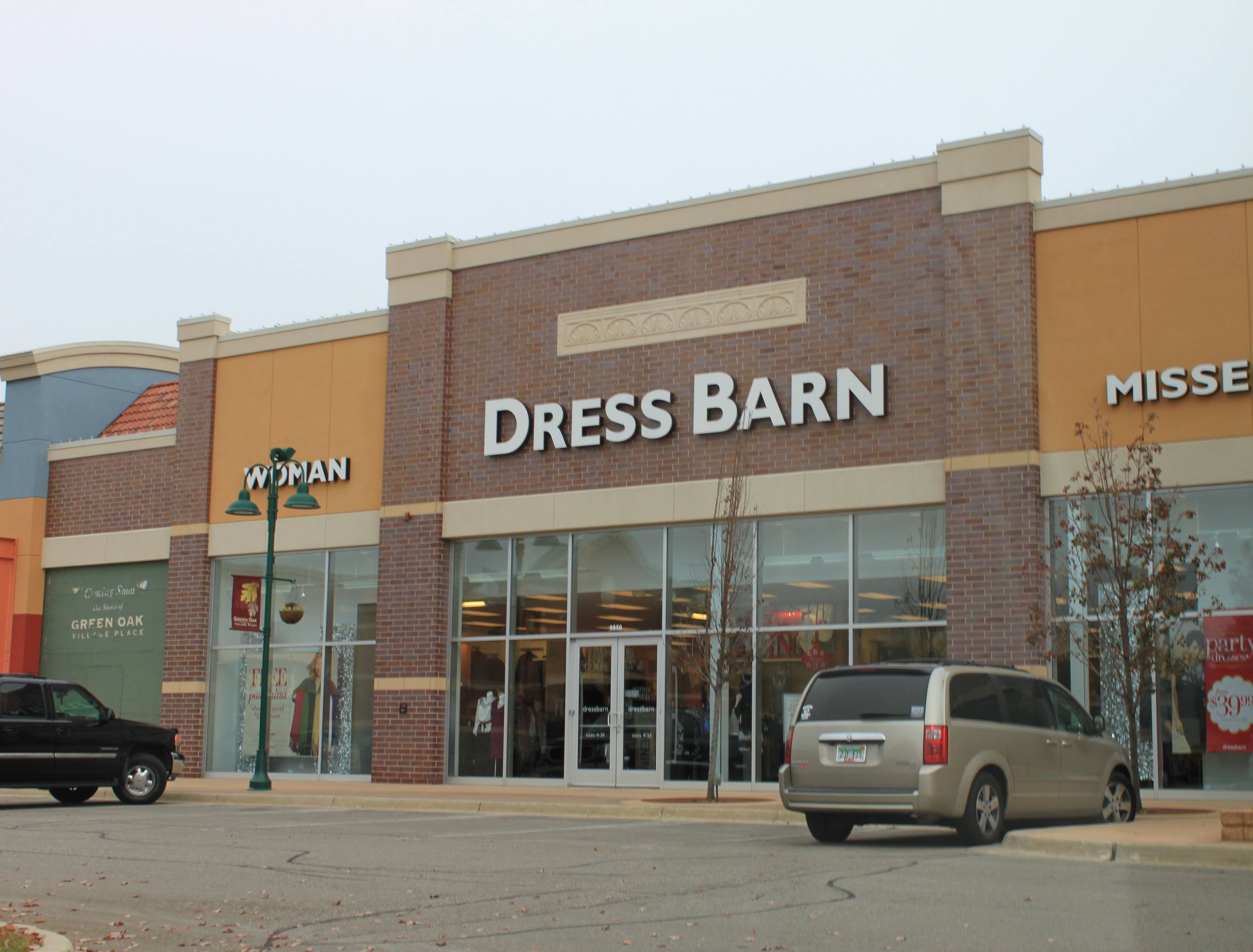 Dress Barn store, Green Oak Village Place, Green Oak Township, Michigan